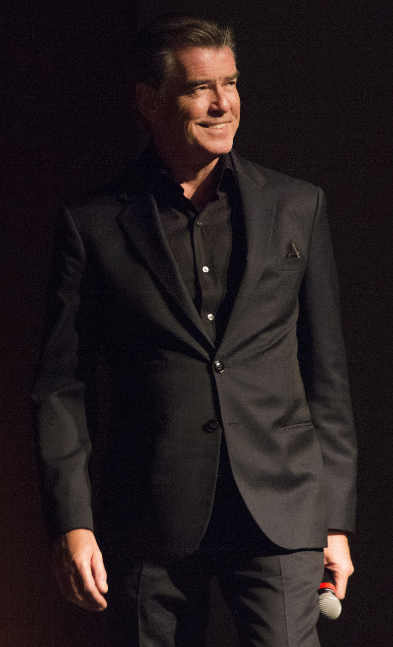 On Monday, March 13, 2017, the LBJ Presidential Library presented a preview and discussion of the new AMC television series The Son. Lead actor Pierce Brosnan, co-creator and executive producer Philipp Meyer, and showrunner and executive producer Kevin Murphy joined former LBJ Library Director Mark Updegrove for a conversation that followed the screening in the LBJ Auditorium.